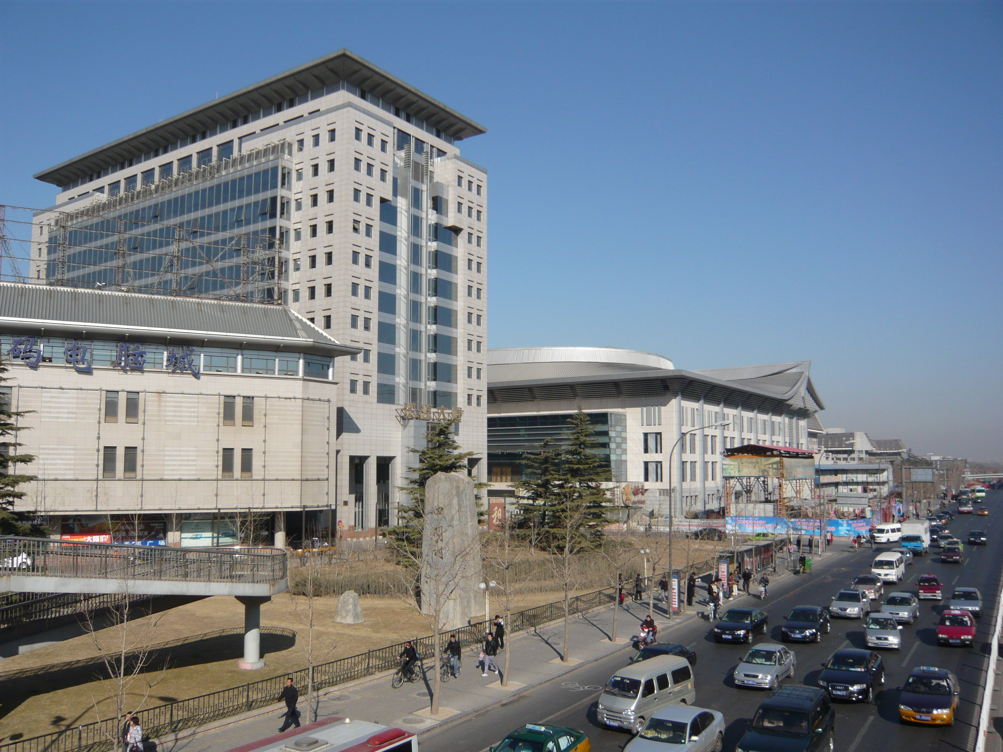 The Ping Pong hall at Peking University